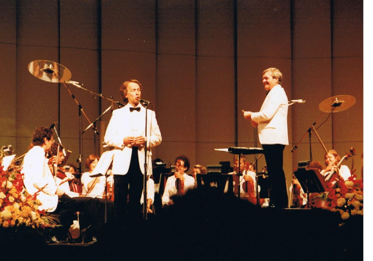 Pierre Hétu conducting baritone Claude Corbeil at Arena Maurice Richard in 1987